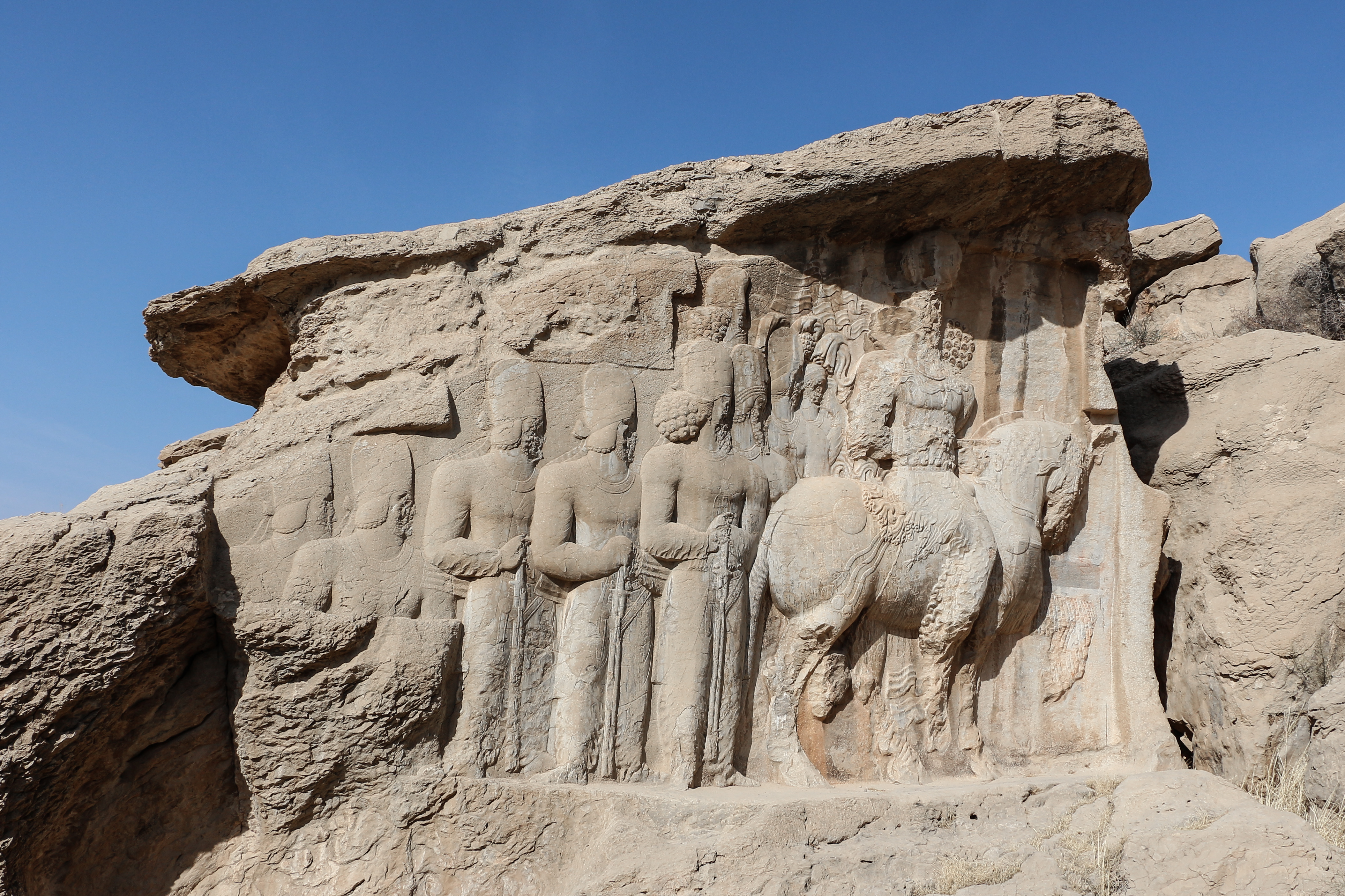 Relief of Shapur's Parade at Naqsh-e Rajab, Iran